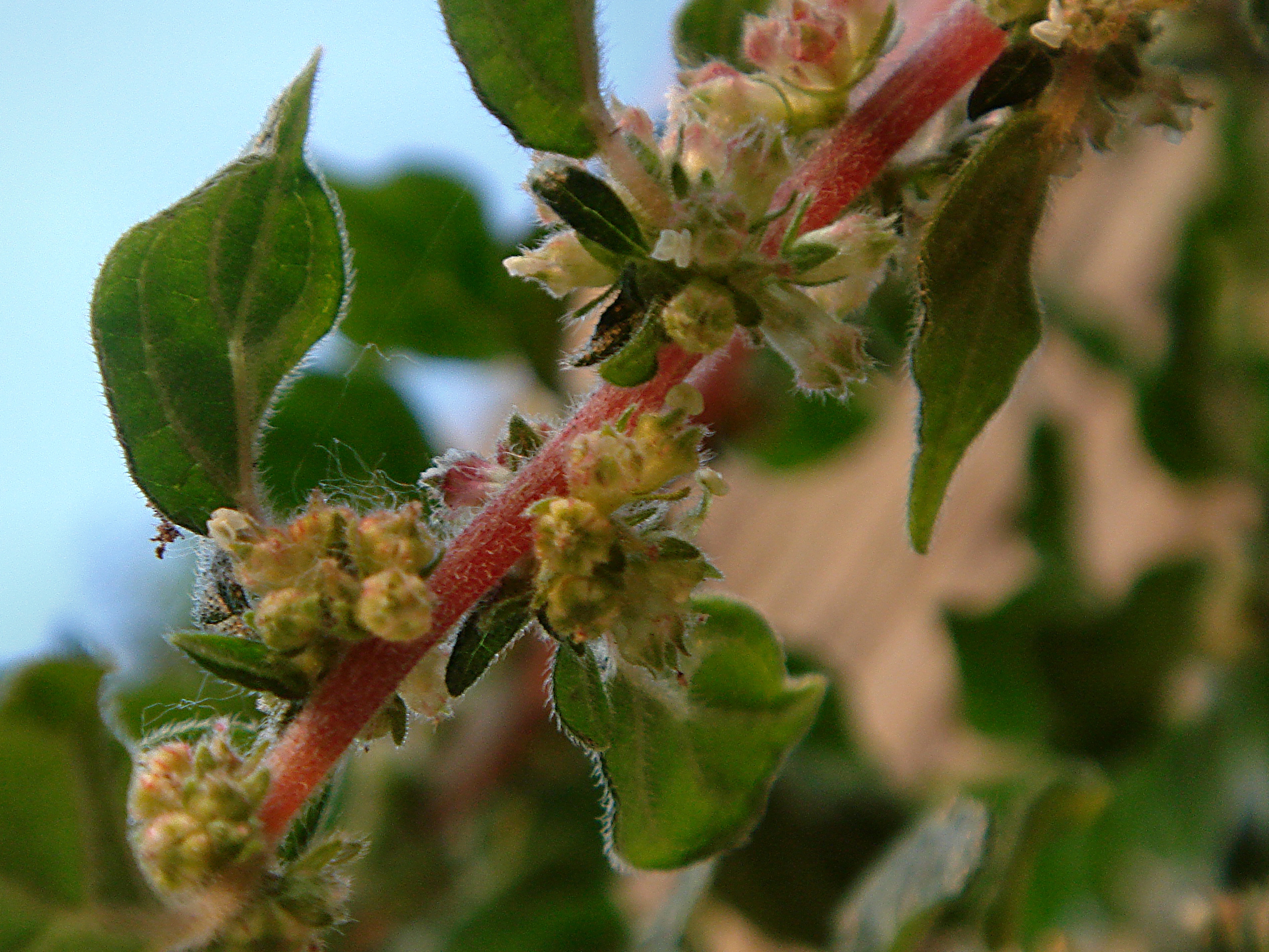 Parietaria_judaica habitus on brick wall (Bomarzo, Italy).